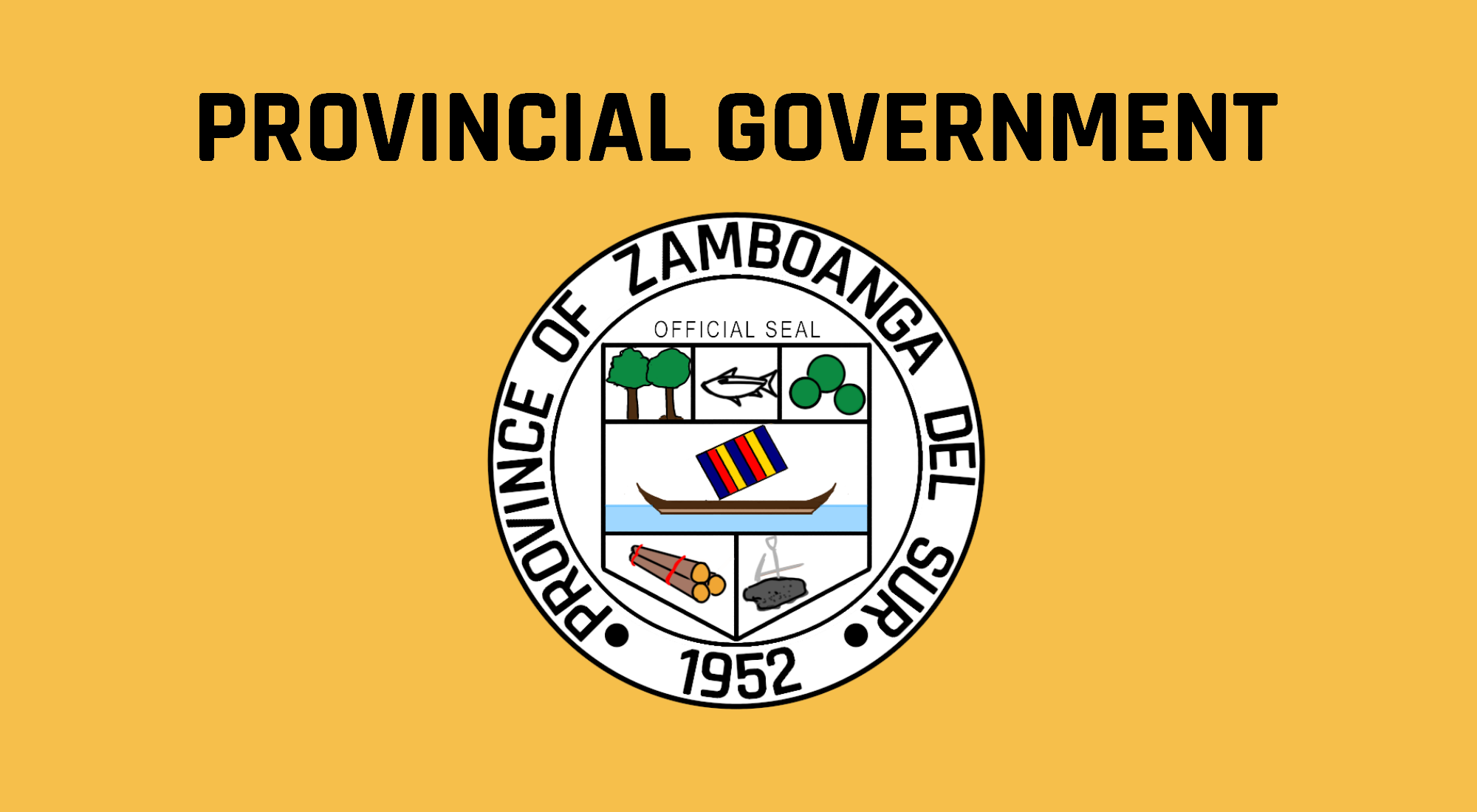 Provincial Flag of Zamboanga del Sur